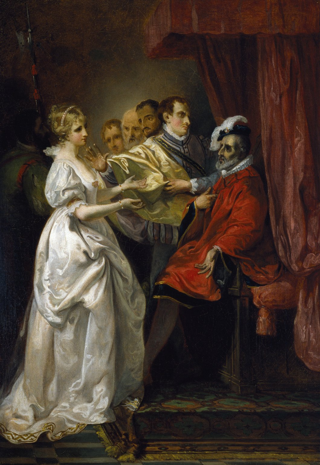 From Act II, Scene 3 of William Shakespeare's All's Well That Ends Well